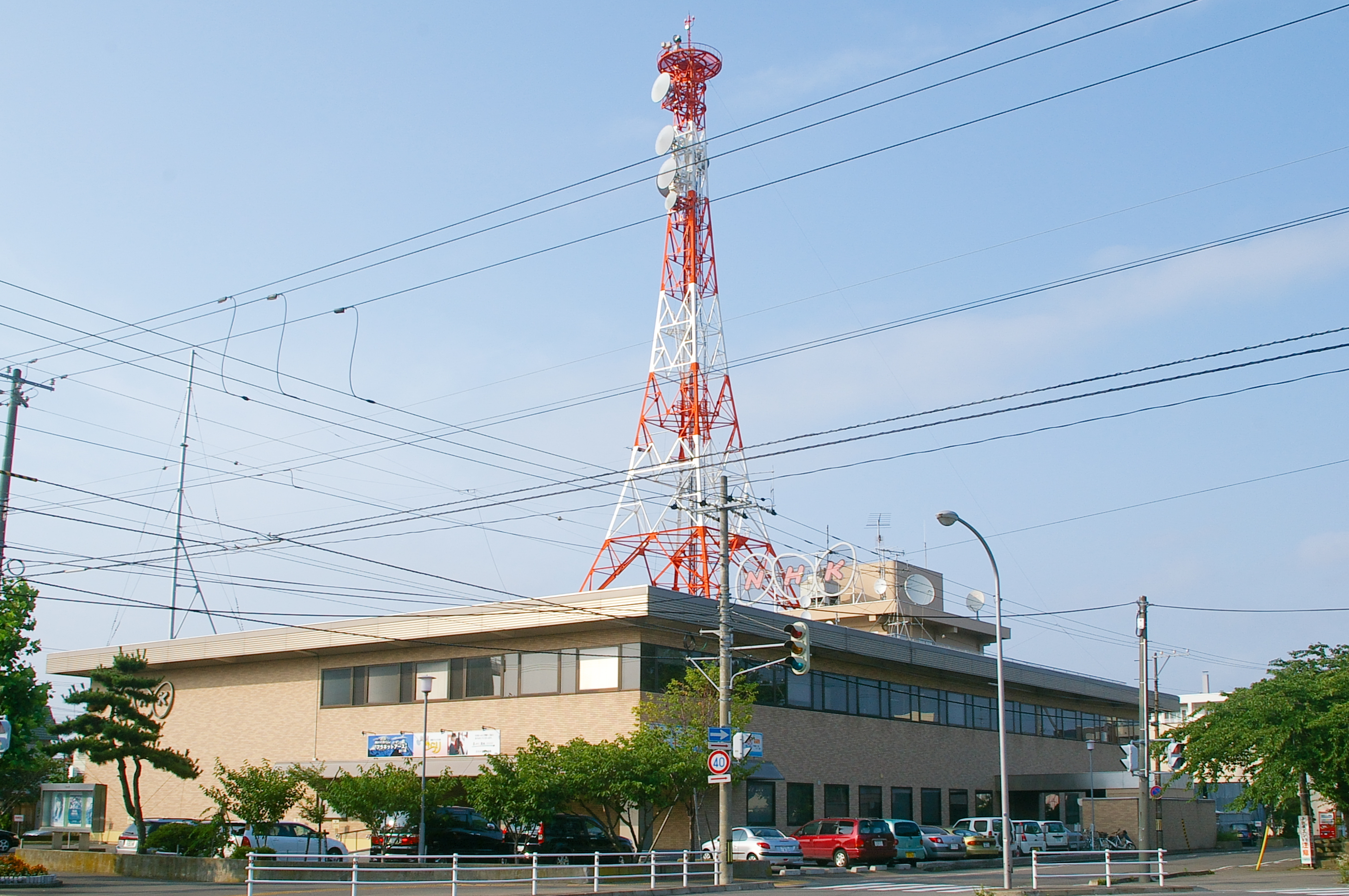 NHK Hakodate Broadcasting Station in Hakodate City, Hokkaido, Japan.